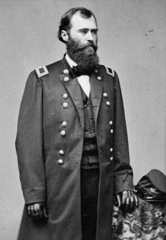 Portrait of Eugene Asa Carr (1830-1910), Union General.